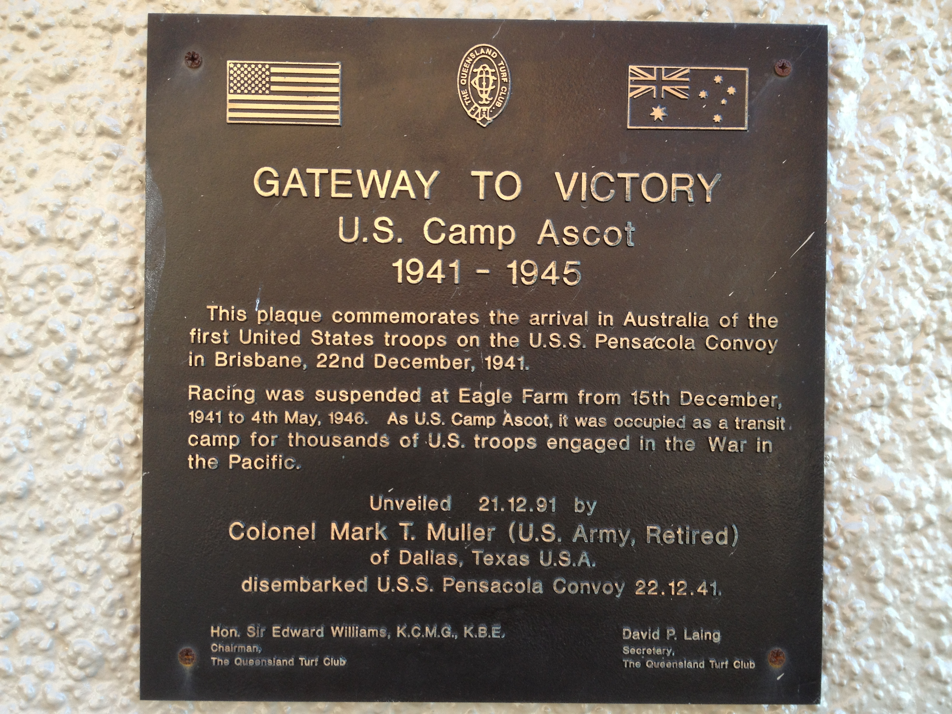 U.S. Camp Ascot Plaque, Members' Stand, Eagle Farm Racecource, May 2013